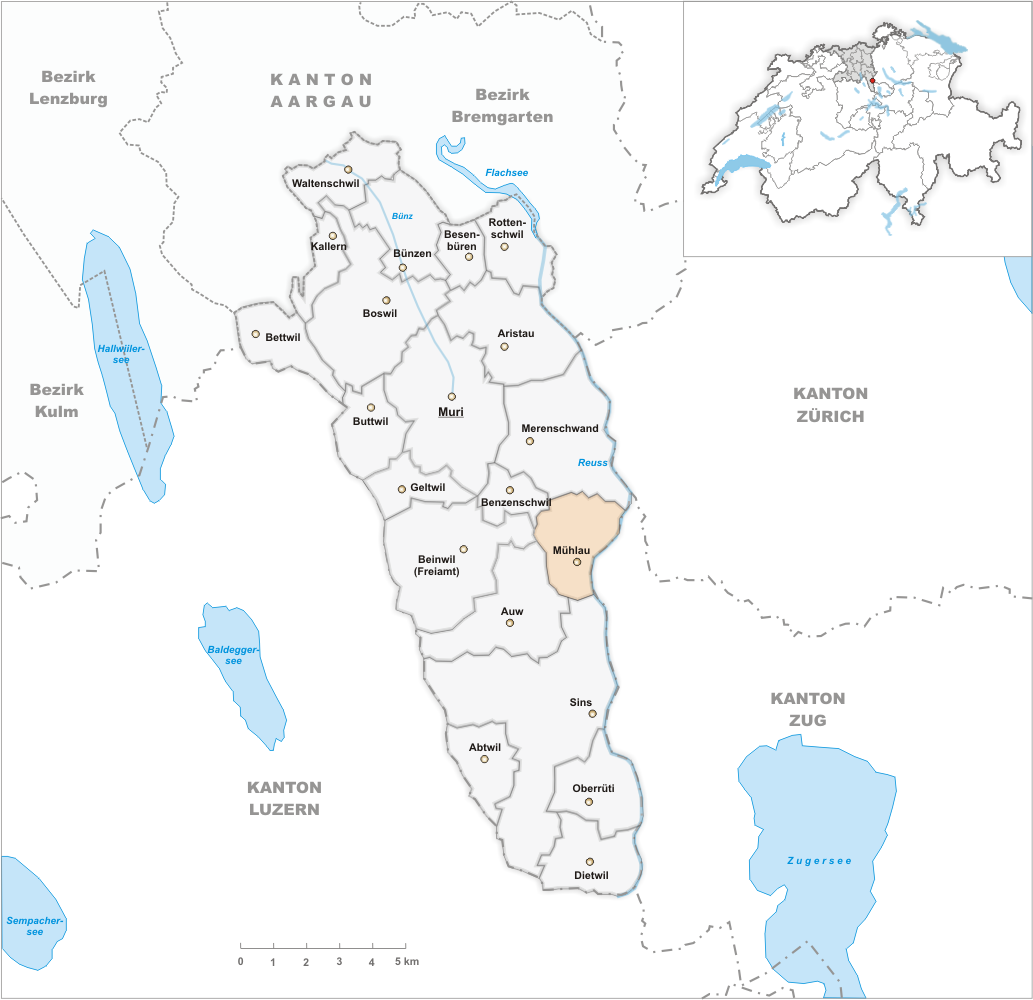 Municipality Mühlau